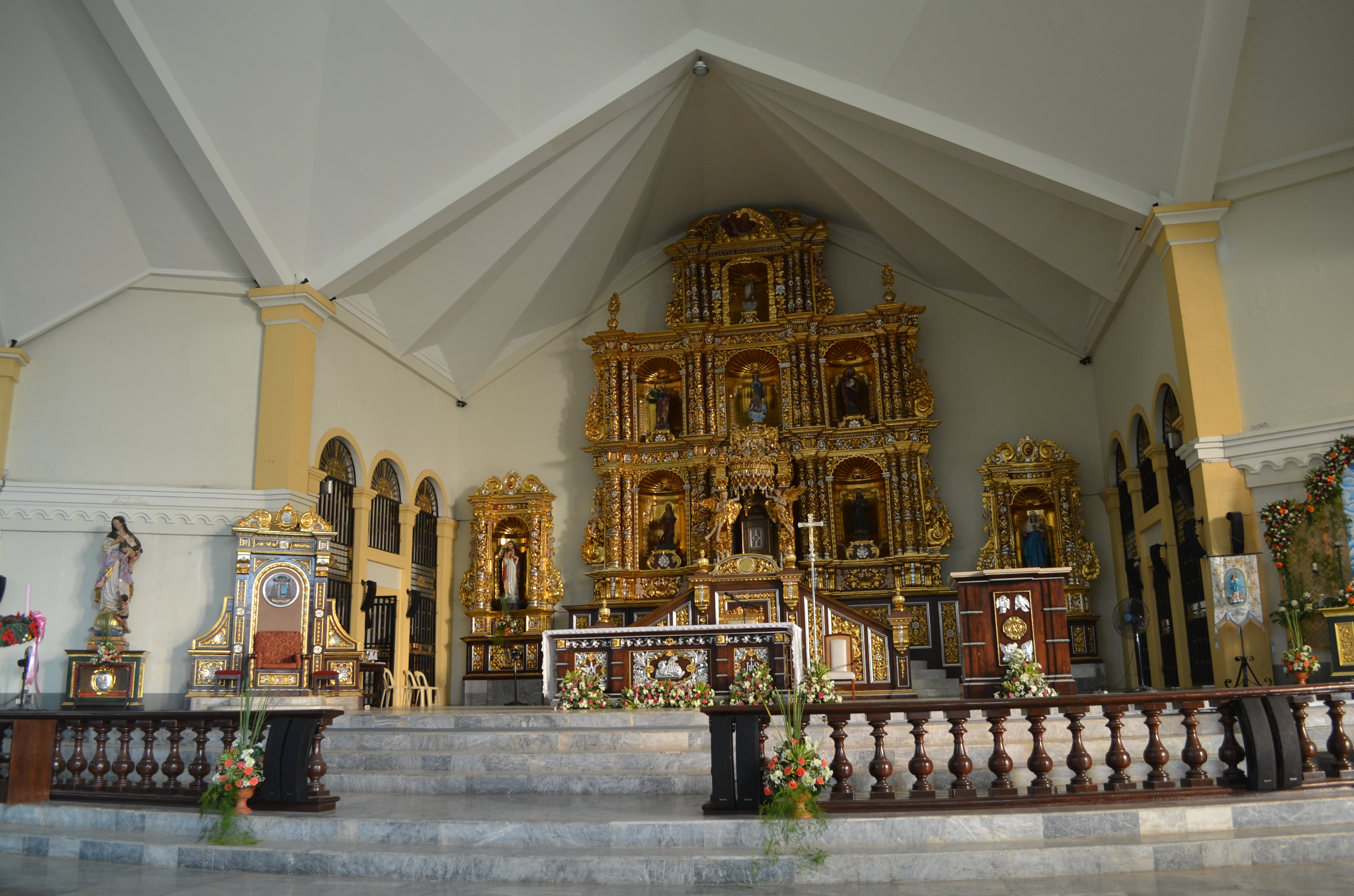 Altar of the Palo Cathedral. Taken during the December 2015 Sinirangan Bisaya Wikimedia Community activities in Eastern Visayas